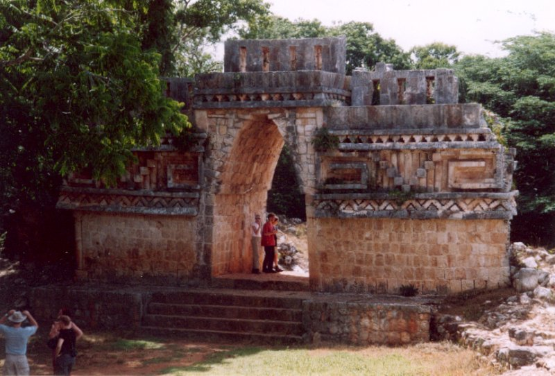 The gateway of Labna (built 600-900 AD).